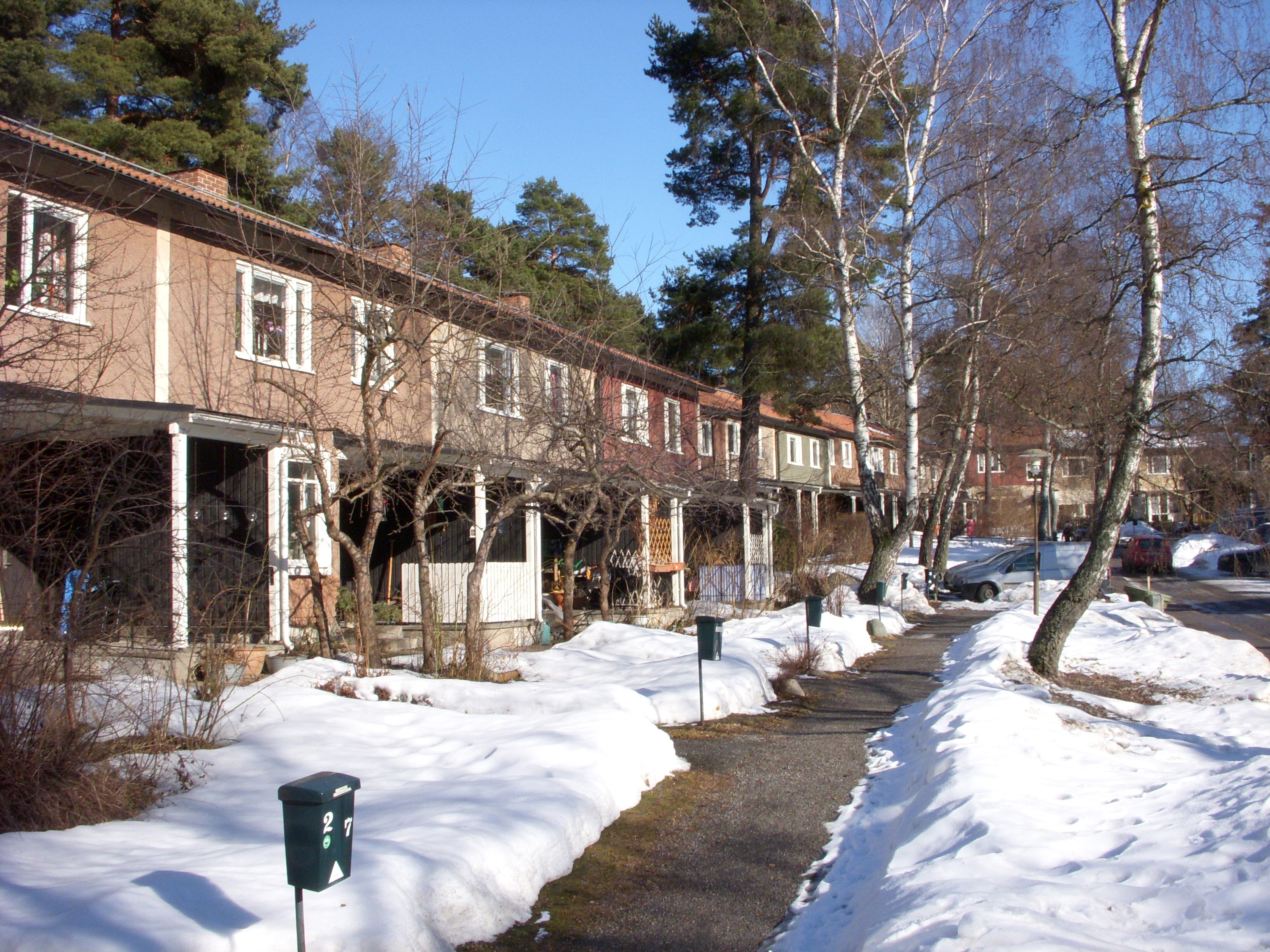 Skönstaholm, Hökarängen, Stockholm